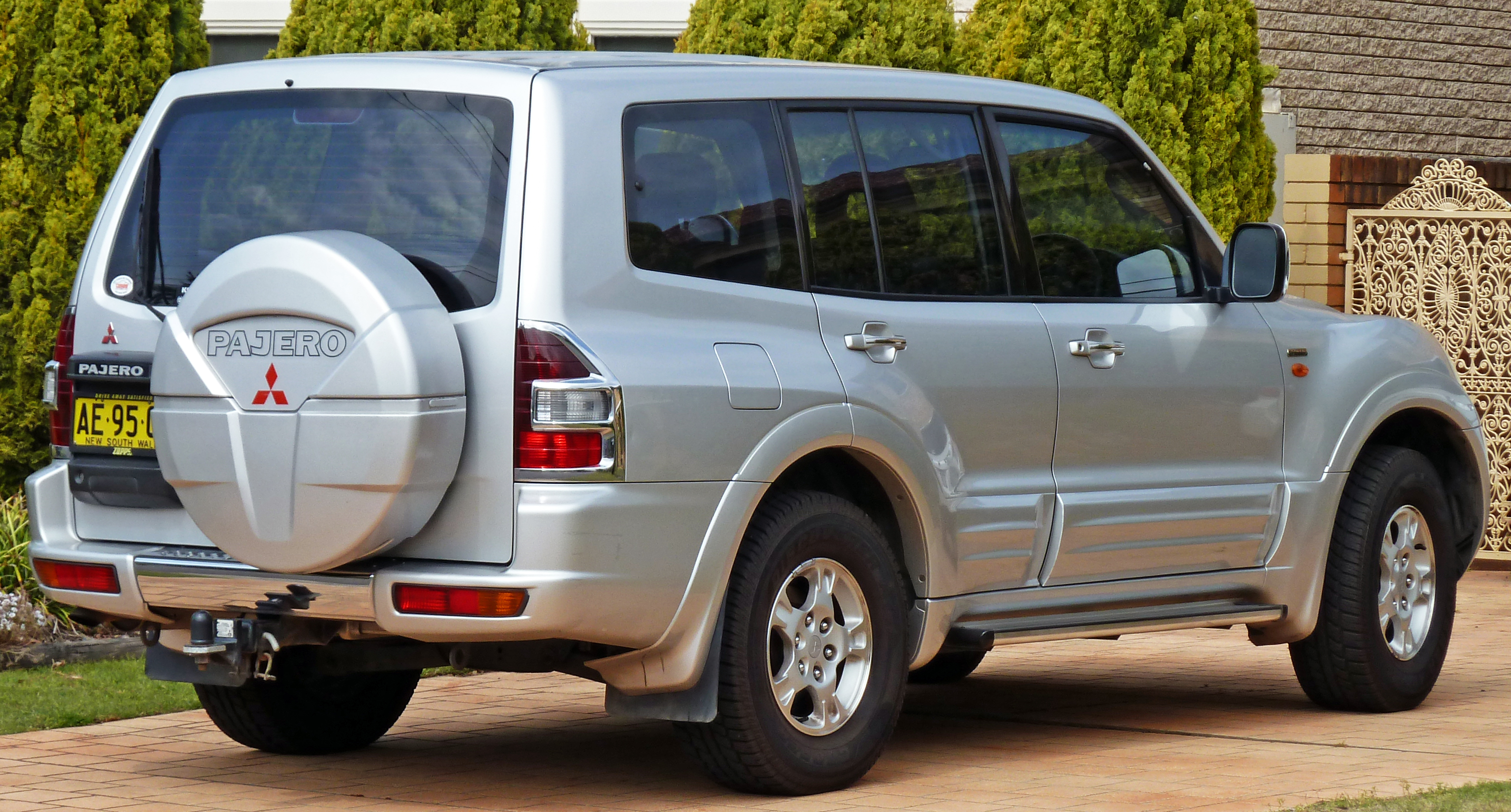 2000–2002 Mitsubishi Pajero (NM) Exceed wagon. Photographed in Sylvania Waters, New South Wales, Australia.